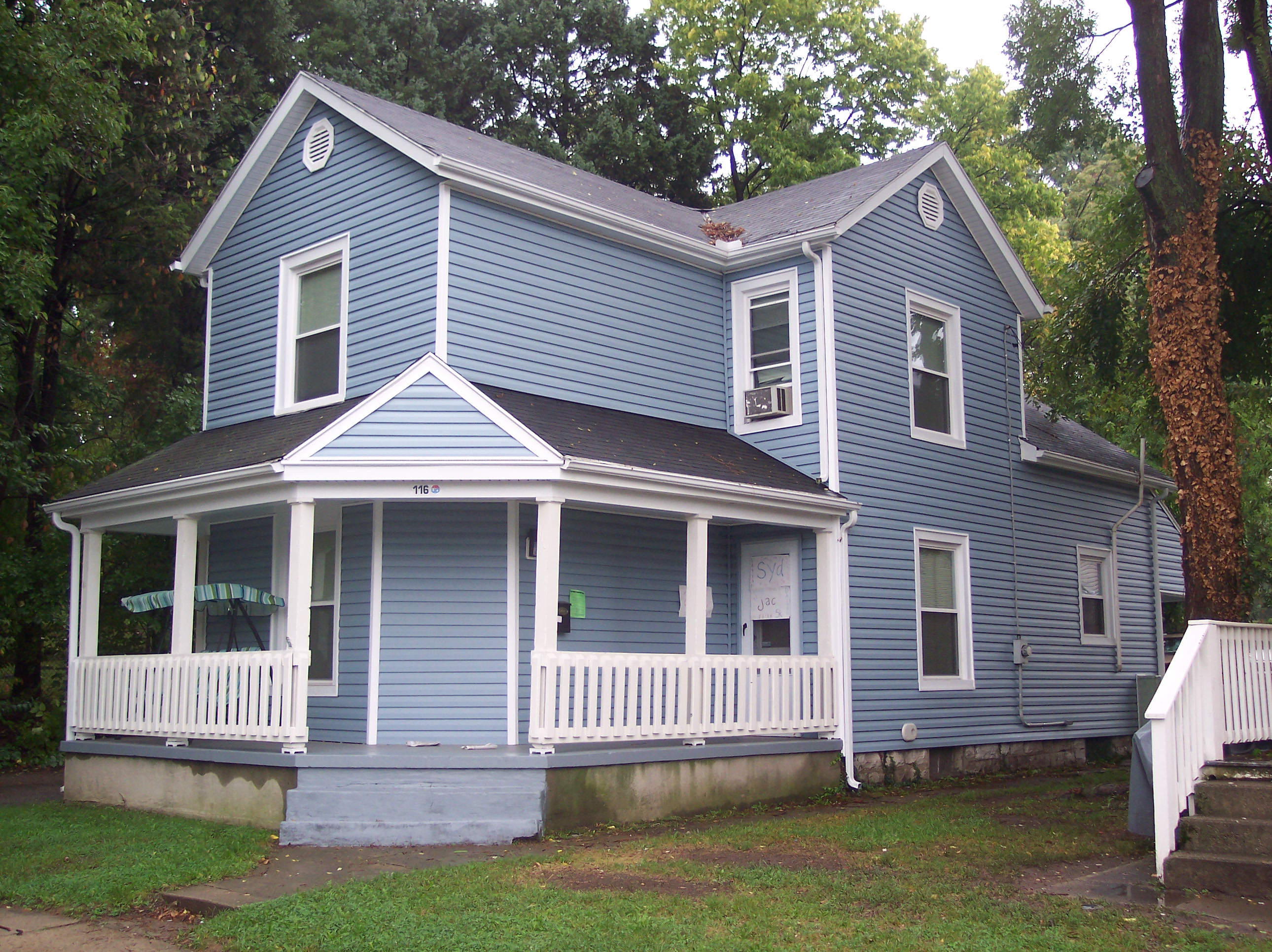 116 Chambers Street, located on the Darkside at the University of Dayton in Dayton, Ohio. Built in 1885, it is one of the oldest houses in the neighborhood.